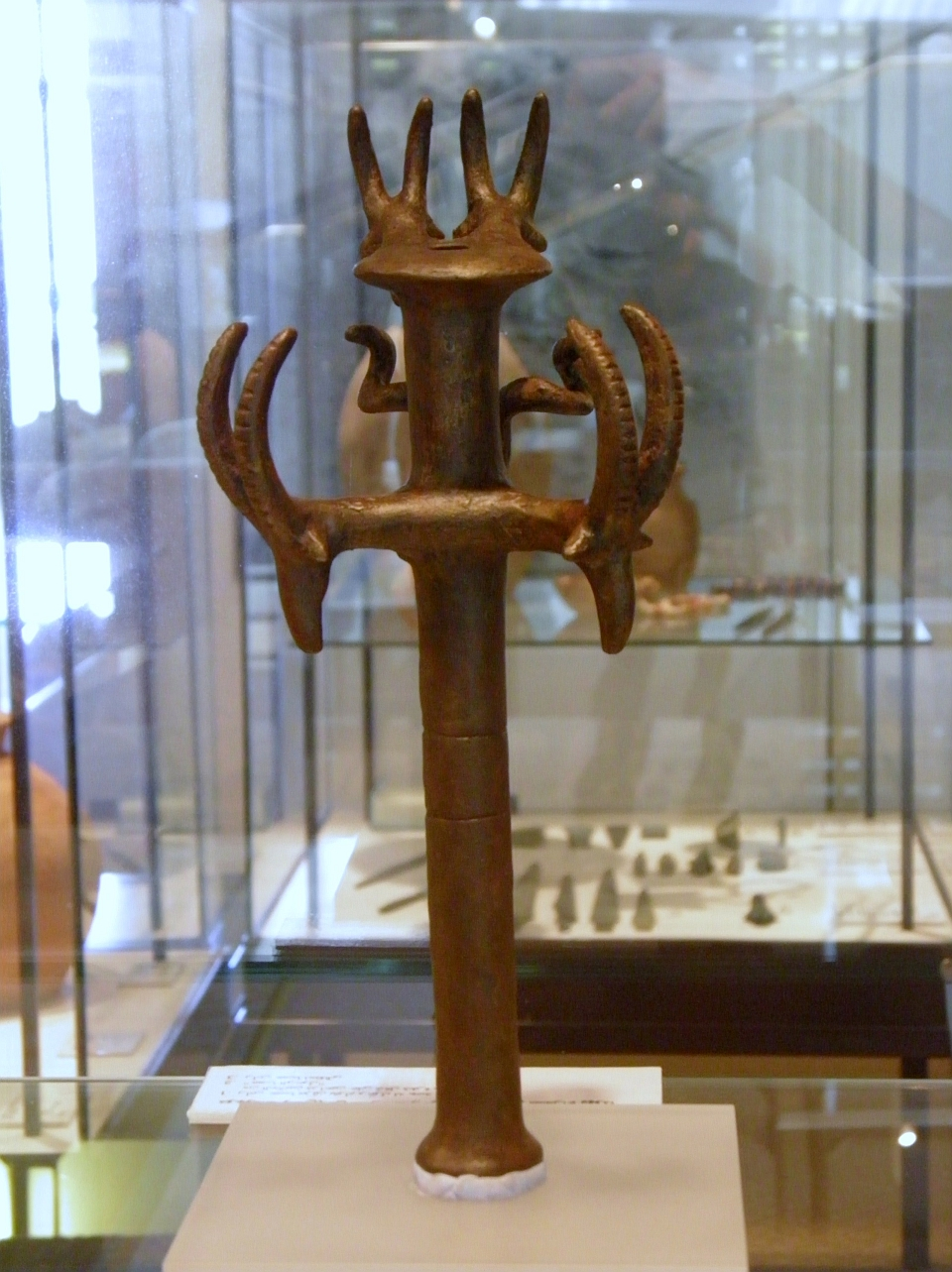 Replica of bronze sceptre from the Nahal Mishmar Hoard. Displayed at the Hecht Museum in Haifa